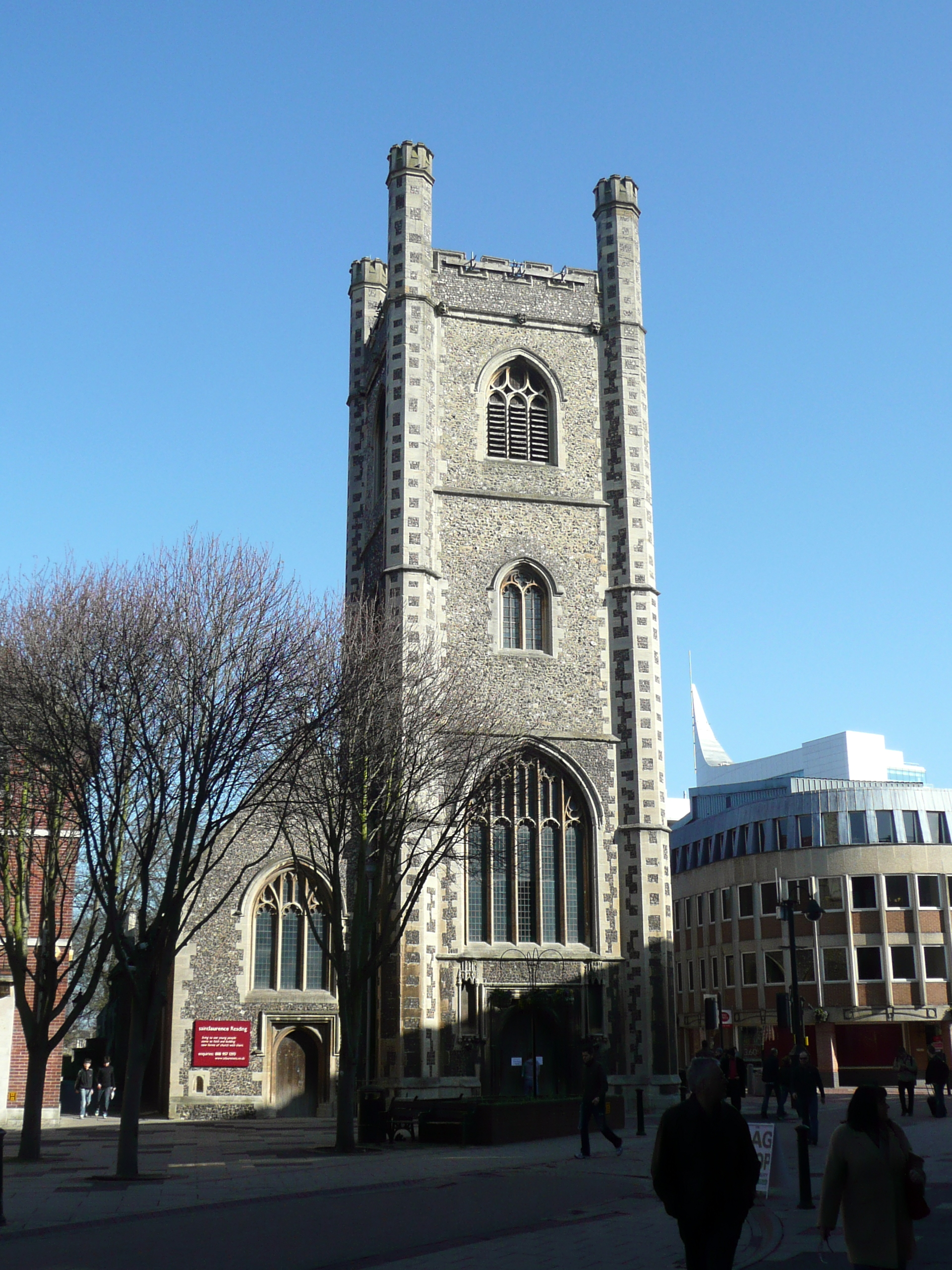 St Laurence, Friar Street, Reading. Originally the Chapel of Reading Abbey. The tower dates from 1438-50. Major restorations were undertaken in the 19th Century.